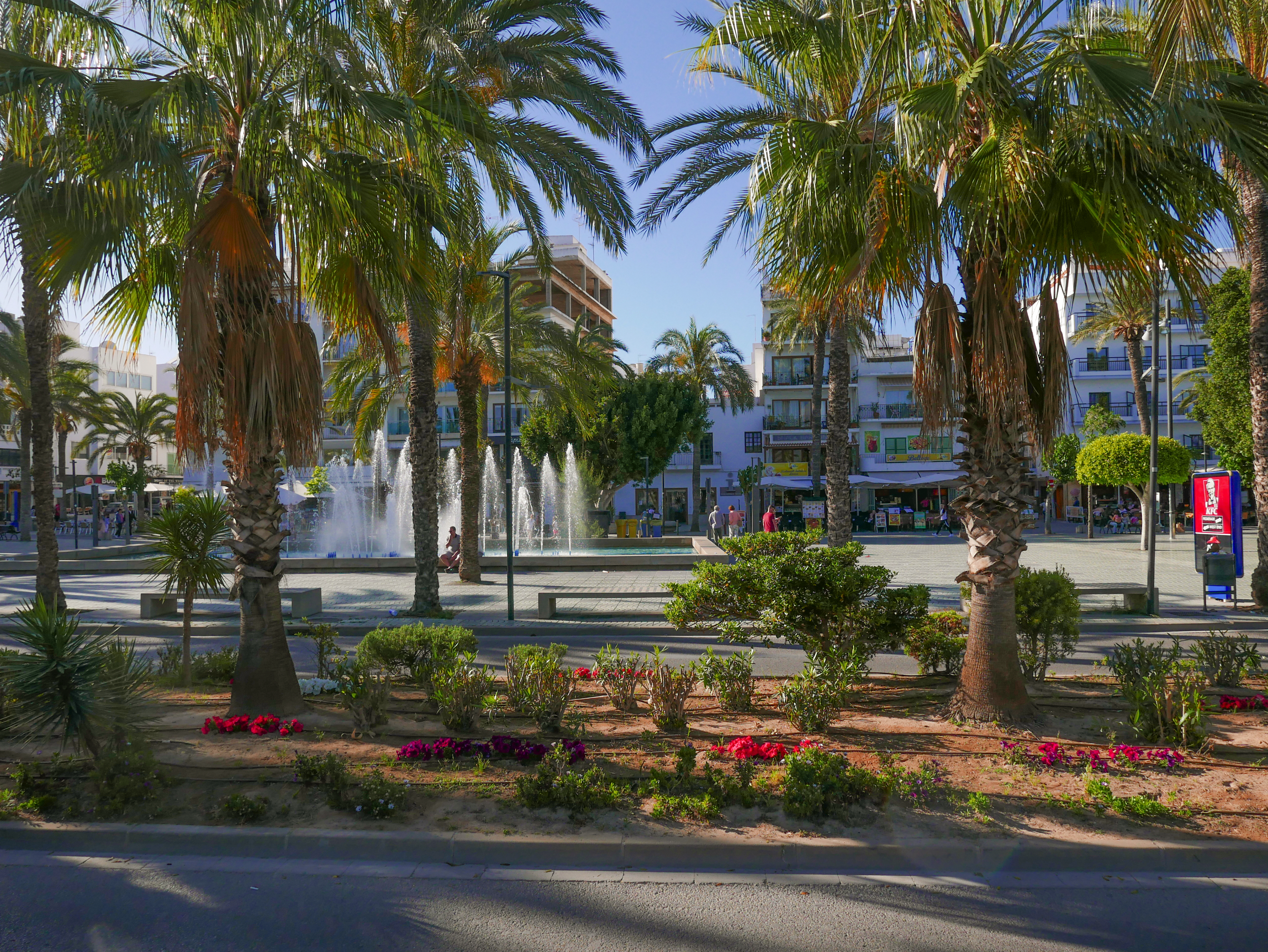 Paseo de ses Fonts in Sant Antoni, Ibiza, Spain